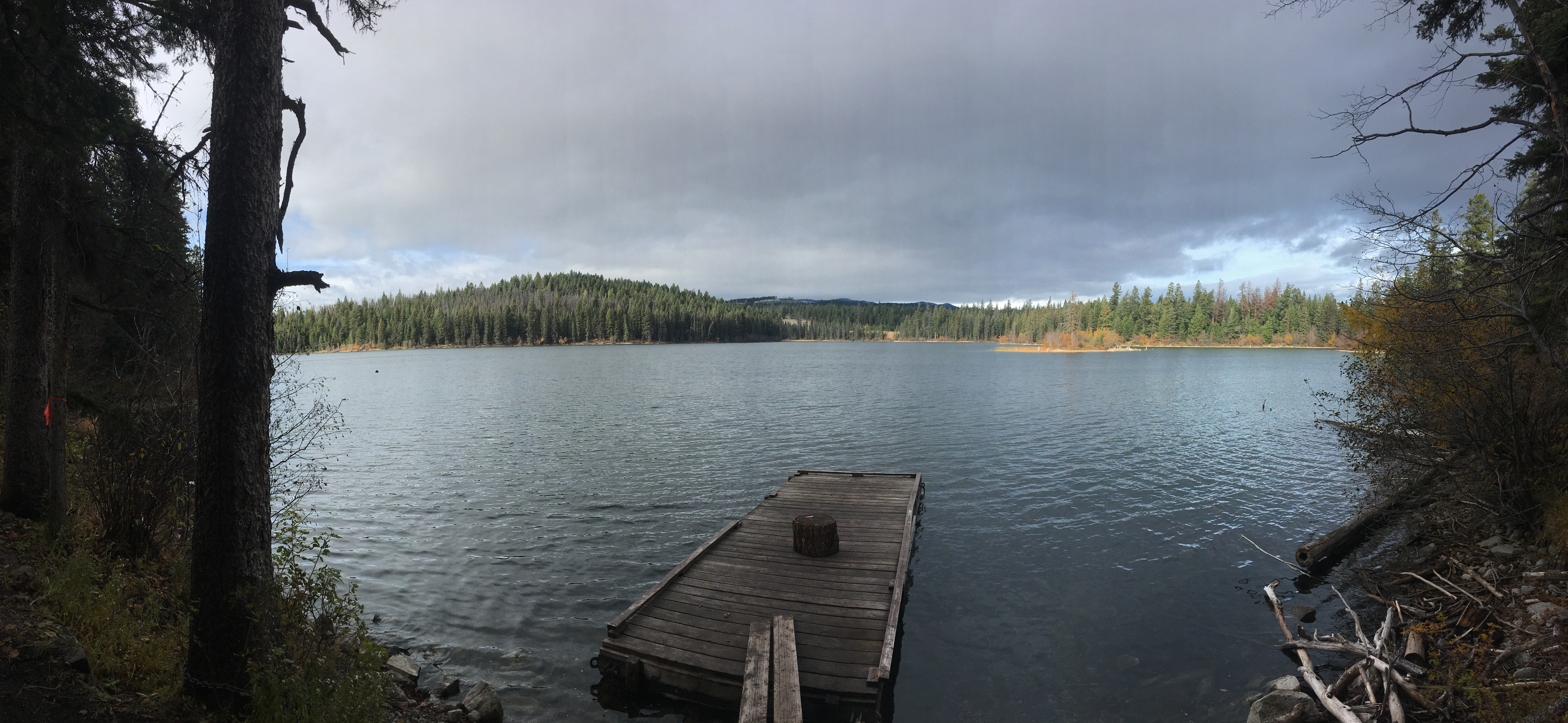 View of McConnell Lake in October within McConnell Lake Provincial Park